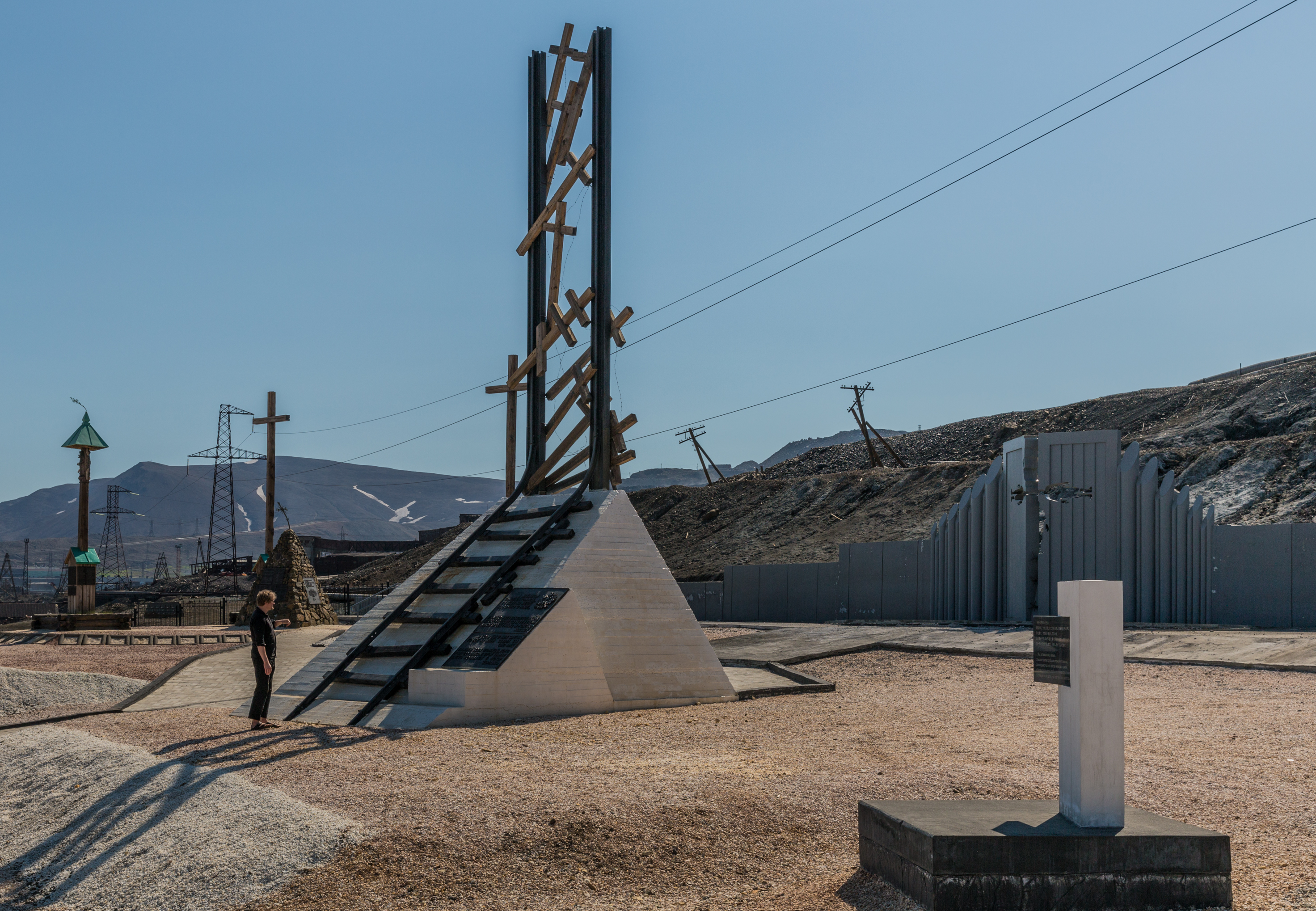 Memorial for Gulag victims in Norilsk "Golgotha"